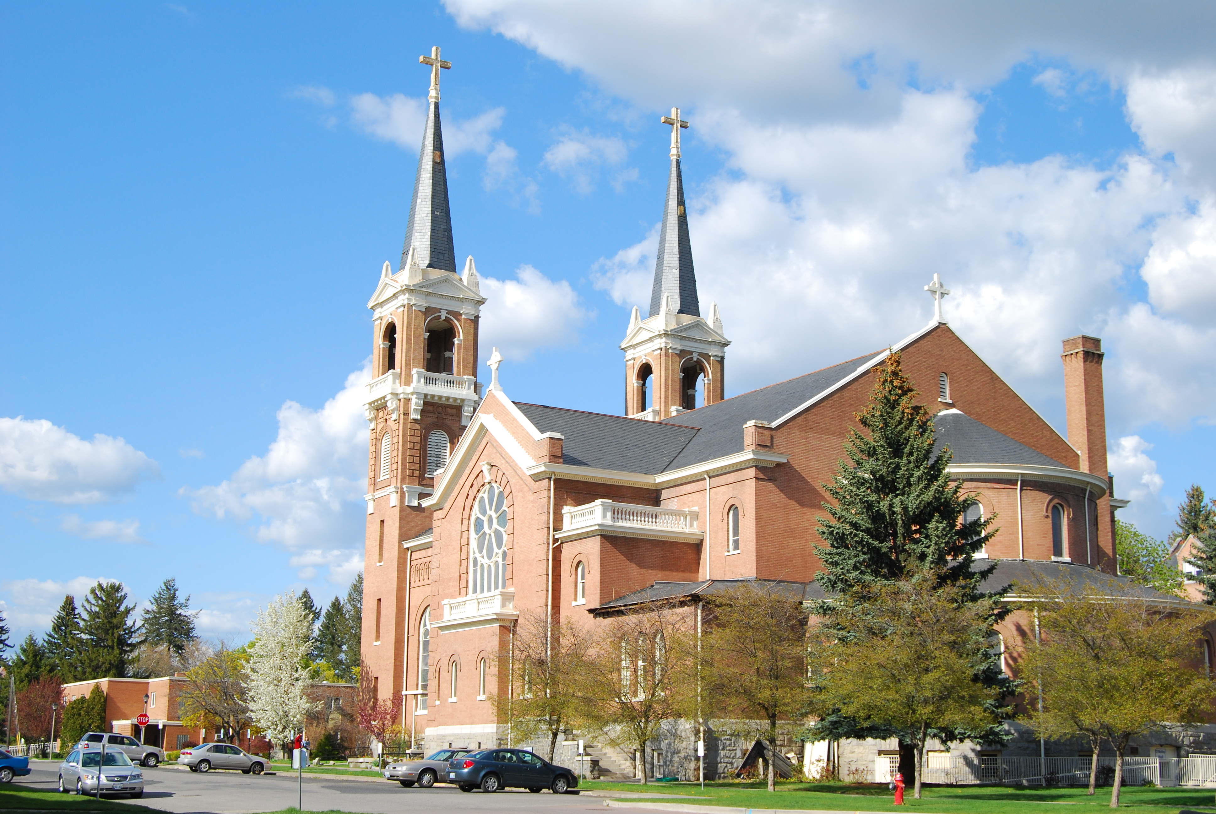 St. Aloysius Church at Gonzaga University in Spokane, WA. © Matthew Hendricks